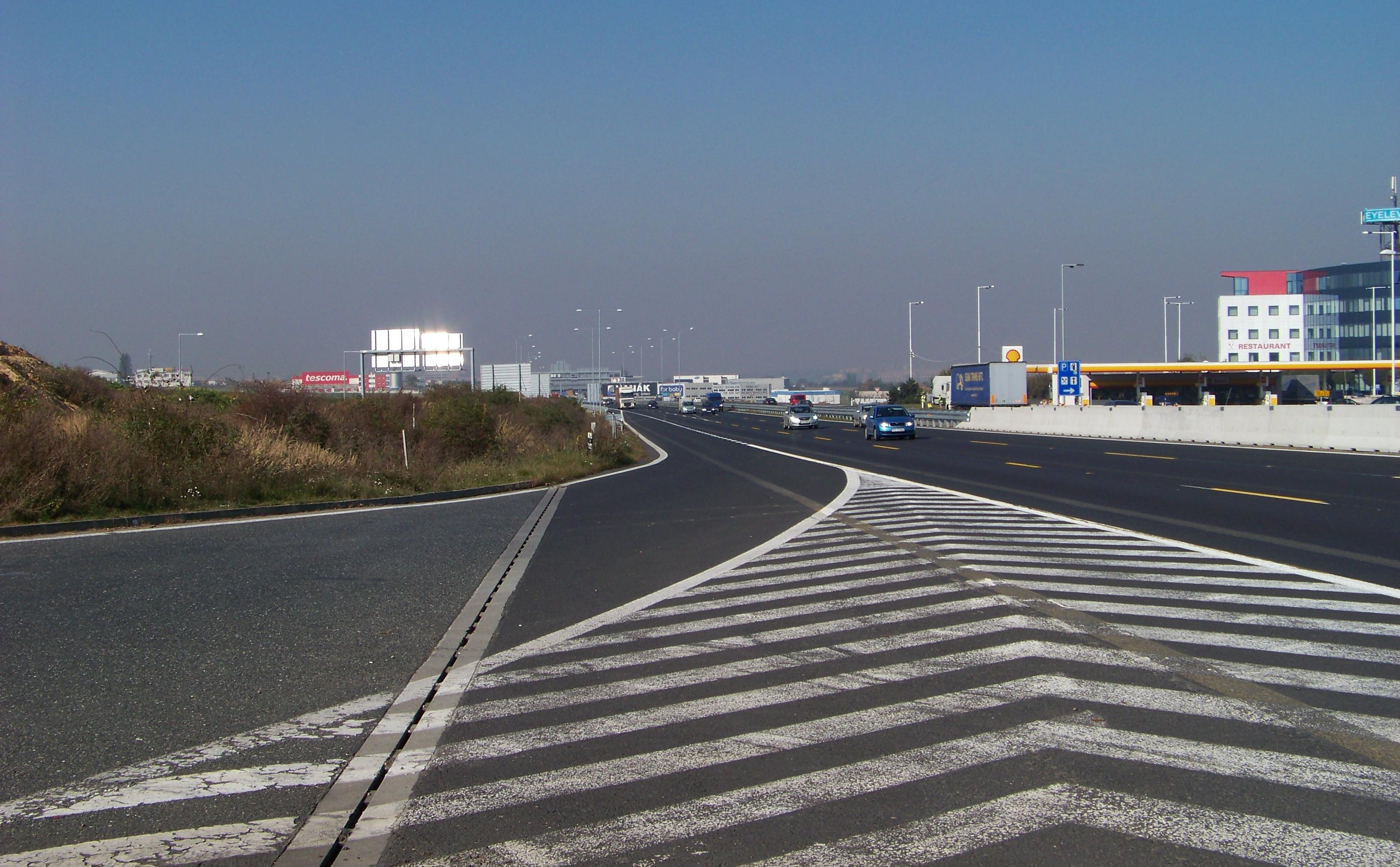 Nupaky, Prague-East District, Central Bohemian Region, the Czech Republic. D1 highway.